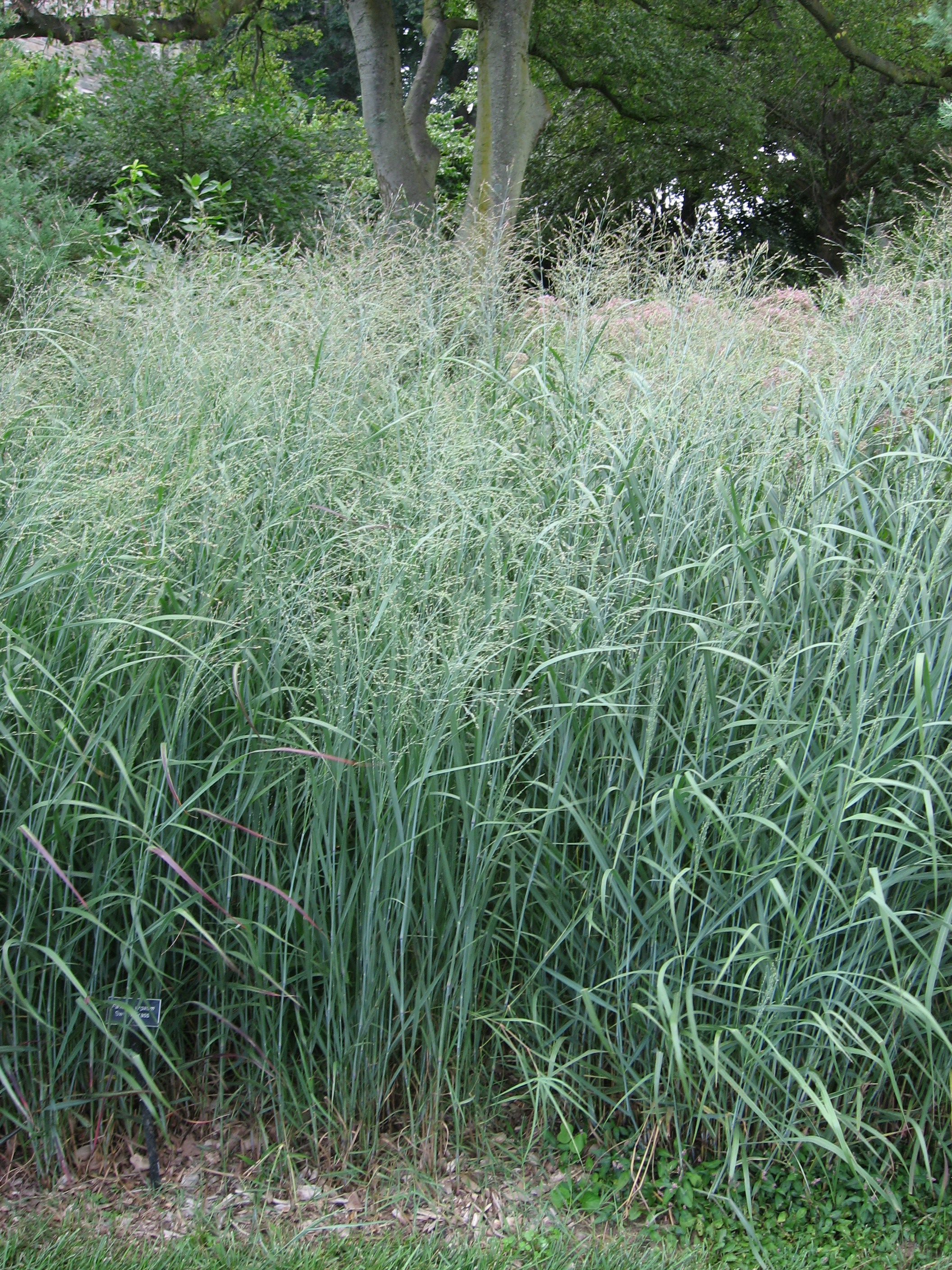 A picture of Panicum virgatum.